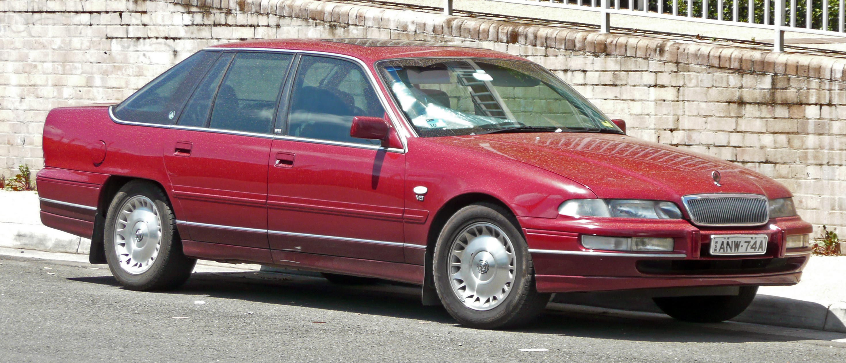 1999 Holden Caprice (VS III) sedan. Photographed in Sutherland, New South Wales, Australia.